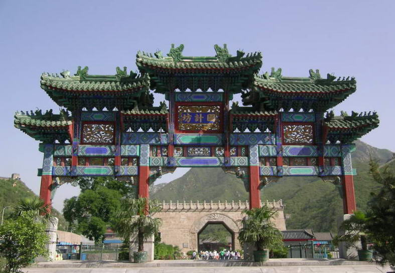 居庸关云台前的牌坊(Torii in the front of Juyongguan Cloud Platform)